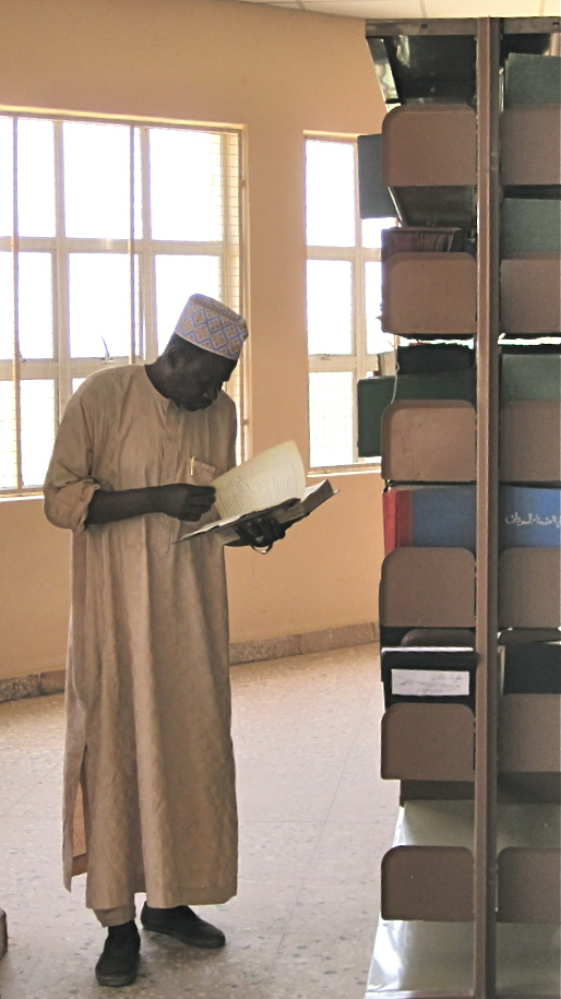 Bayero University library